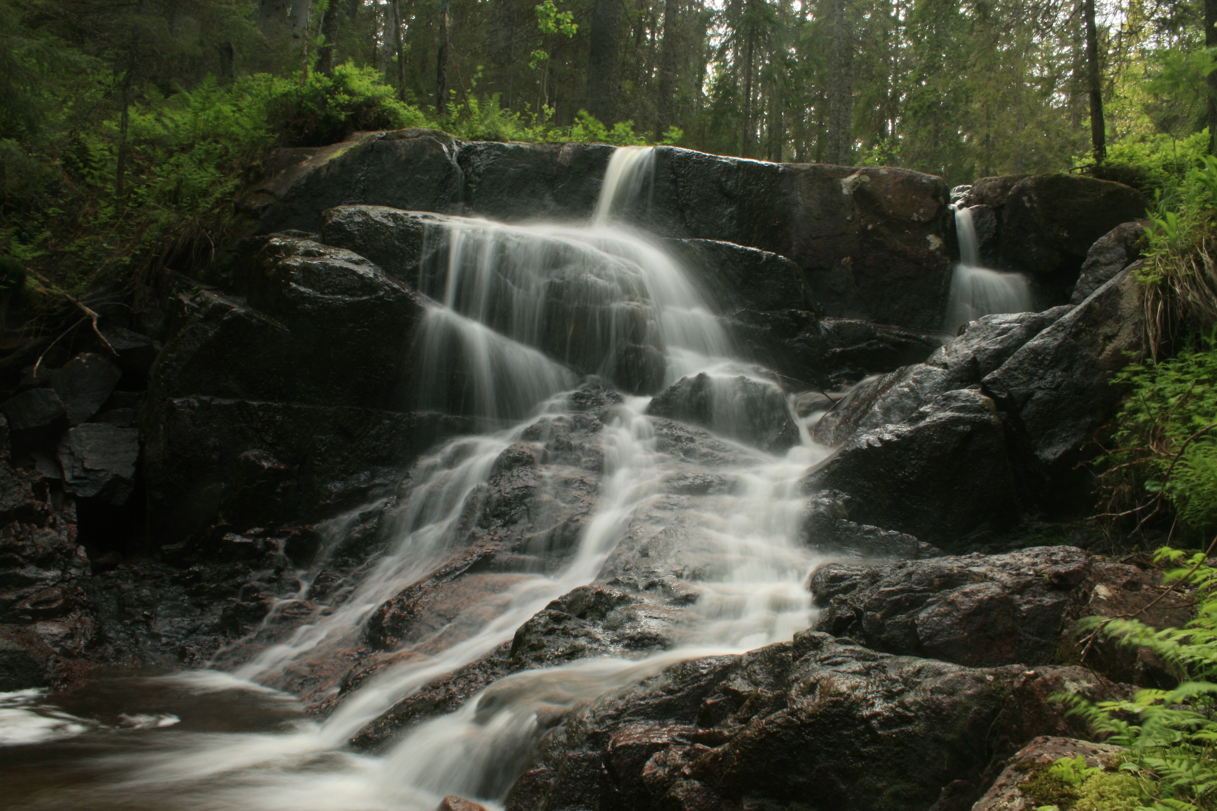 Small waterfall on the Skravelbäcken, in Skuleskogen national park.